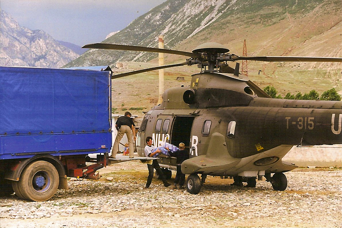 Swiss Air Force Eurocopter Super Puma in serivce for UNHCR shortly after Kosovo War in Kukës, Northern Albania